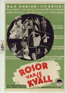 Poster of a 1939 Swedish film